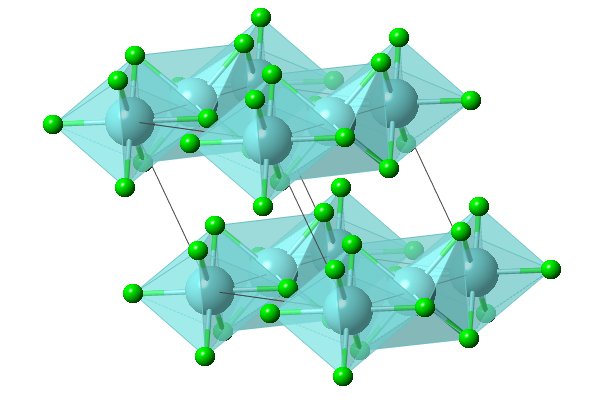 Zirconium(III) chloride in the unit cell, hexagonal, P63/mcm, 2 molecules in the cell.